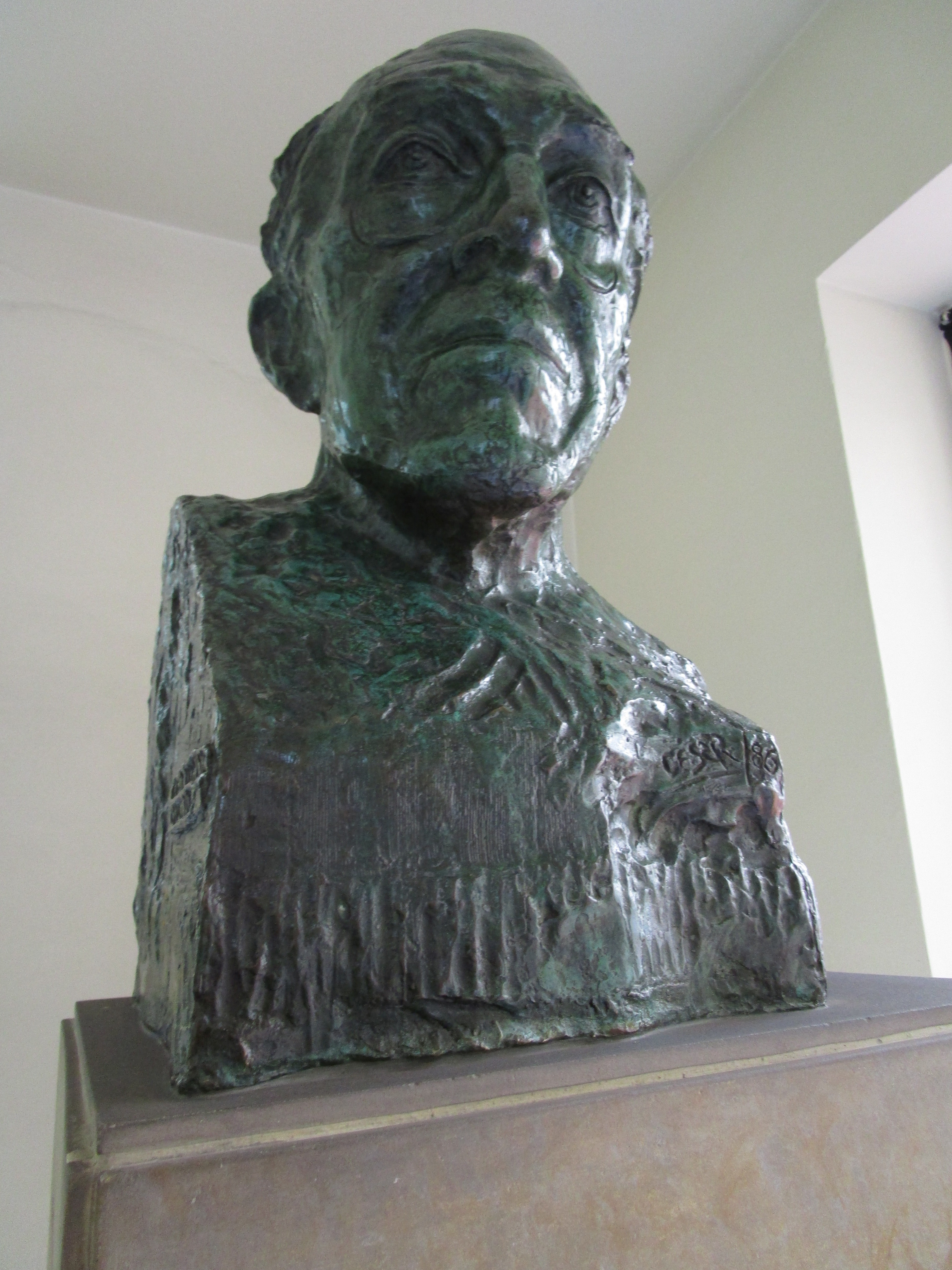 Bust of German Arciniegas